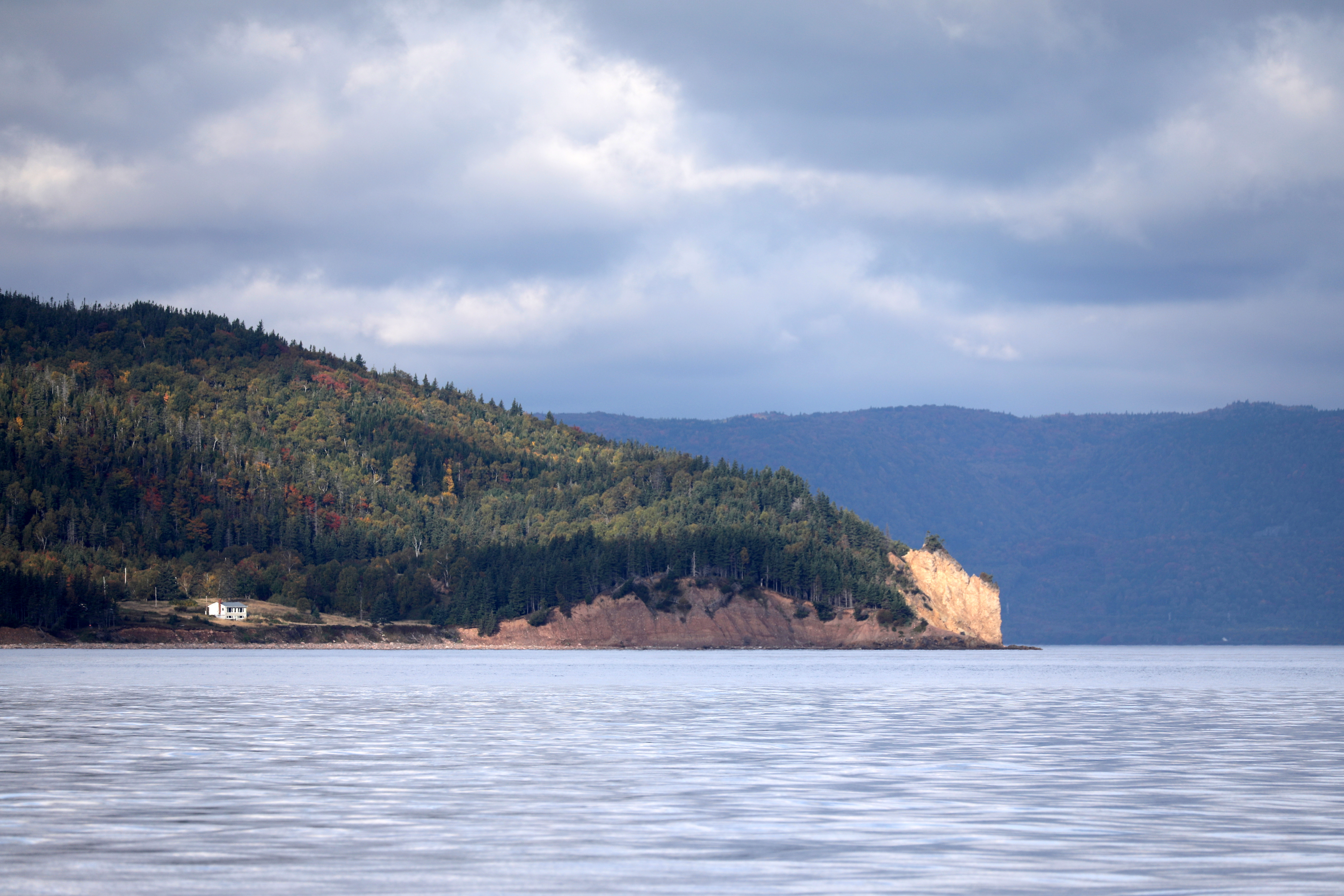 Cape Dauphin is a Canadian headland in Victoria County, Nova Scotia. The cape is located on the east coast of Cape Breton Island and divides St. Ann's Bay to the north from the Great Bras d'Or channel to the south. Cape Dauphin lies at the foot of Cape Dauphin Mountain which rises to the southwest to a summit of 334.1 metres (1,096 ft) above the shores of the cape. The easternmost tip of Cape Dauphin is composed of karst topography and has several solution caves in the area, one of which, "Fairy Hole" is a sea cave reputedly linked to various legends of the Mi'kmaq Nation.